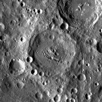 LROC . Papaleksi at center, Spencer Jones at upper right.